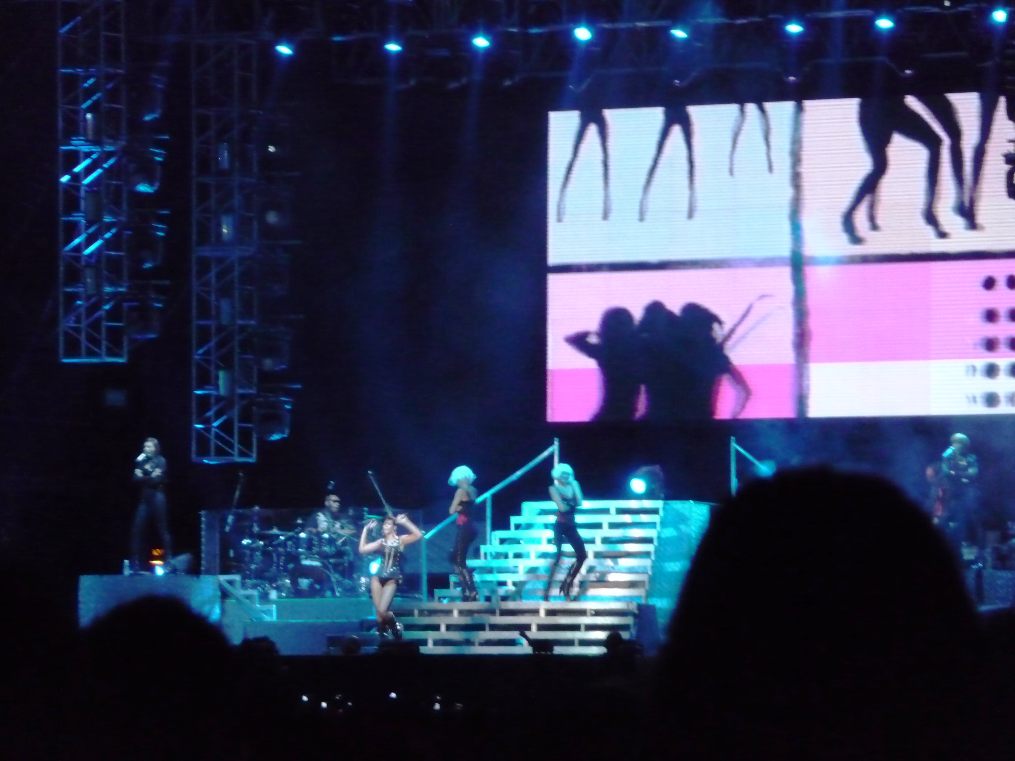 Rihanna n Chris Brown (62)